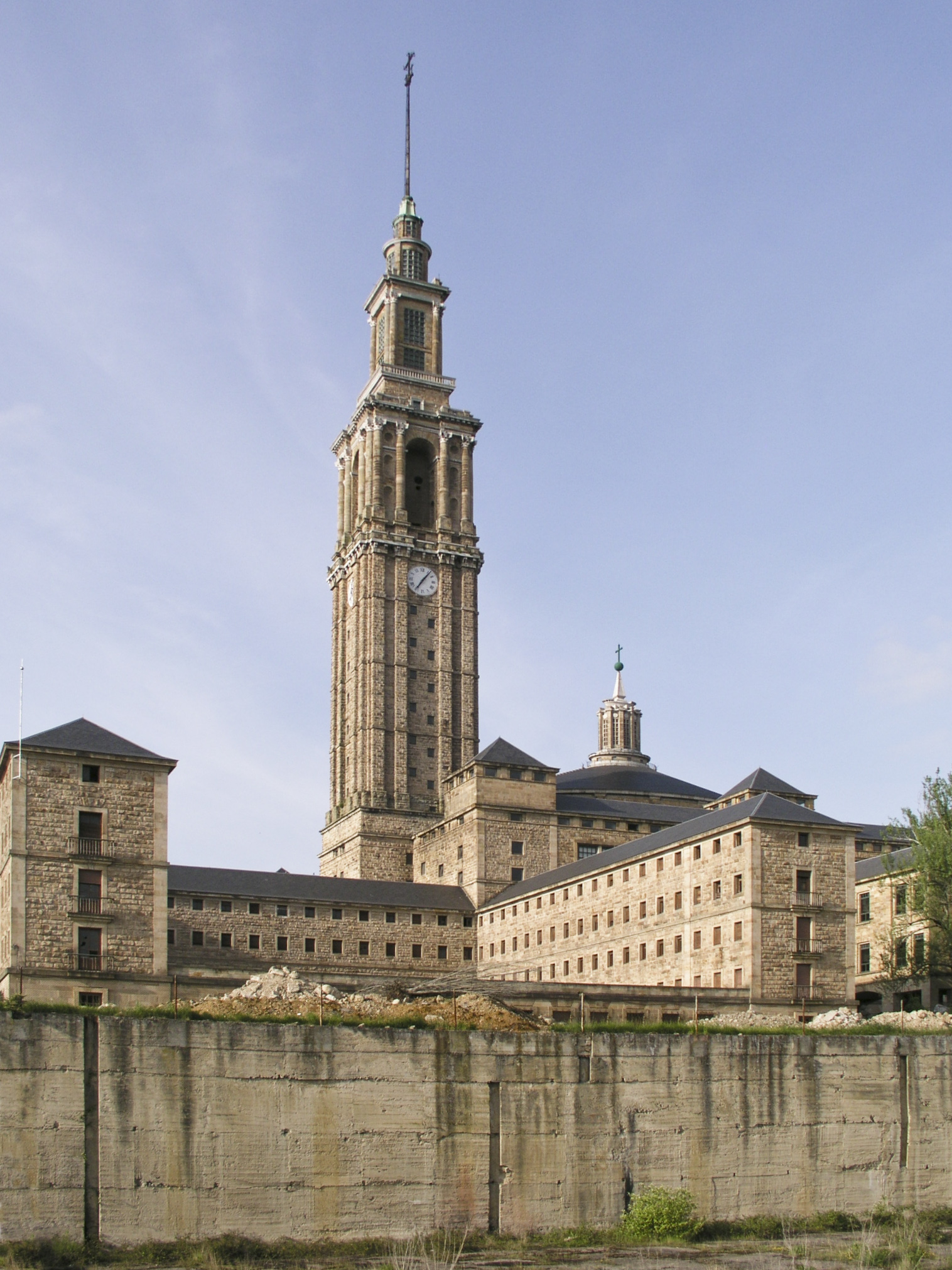 Universidad Laboral de Gijón, Spain